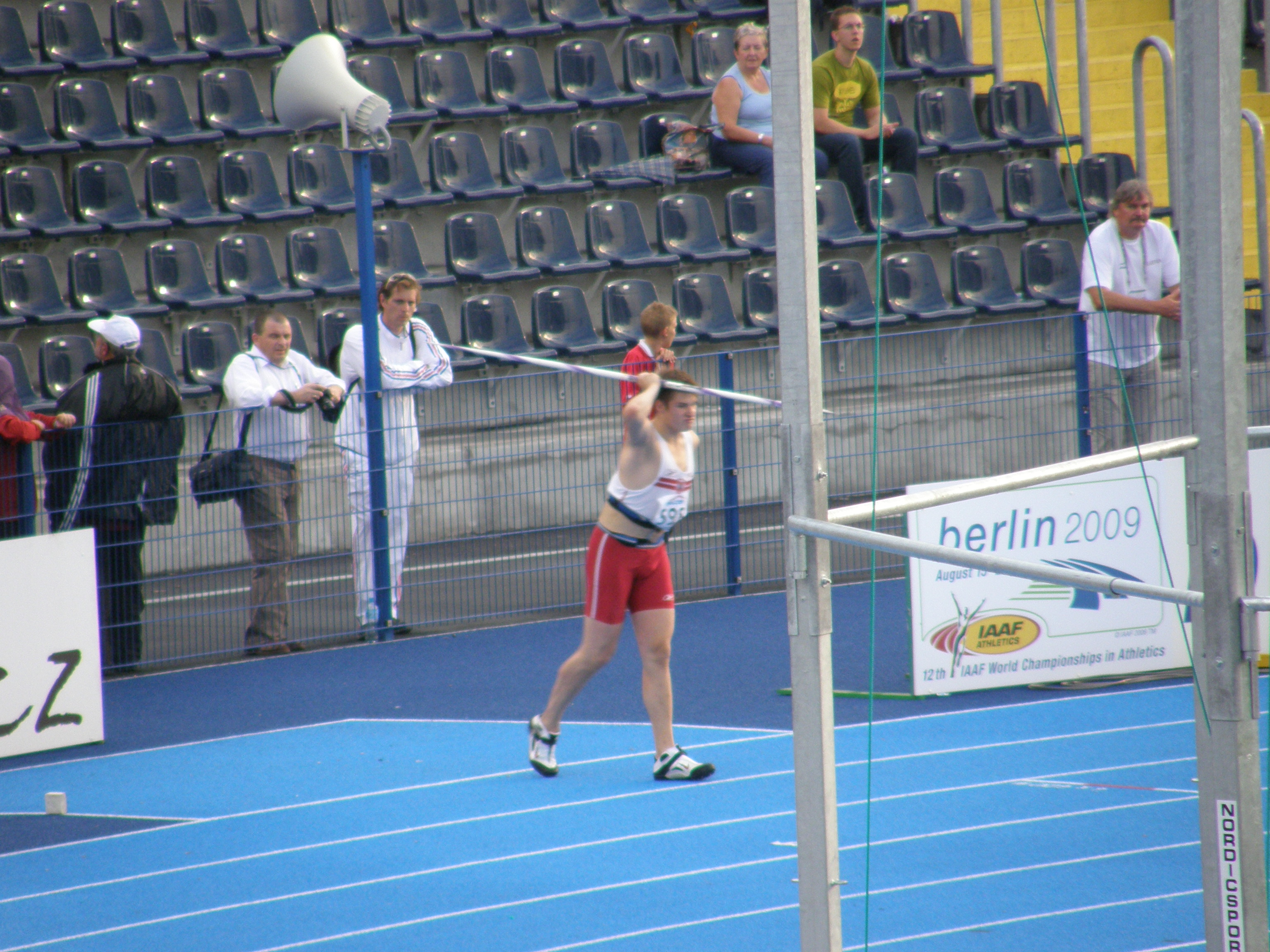 Robert Szpak, Zdzisław Krzyszkowiak Stadium - Bydgoszcz /World Junior Championships in Athletics/